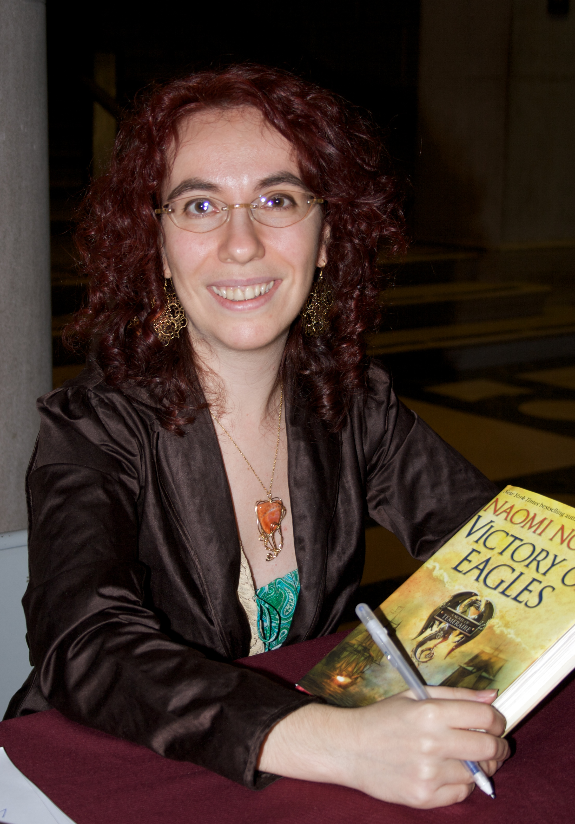 Author Naomi Novik at a booksigning in Philadelphia, July 2008